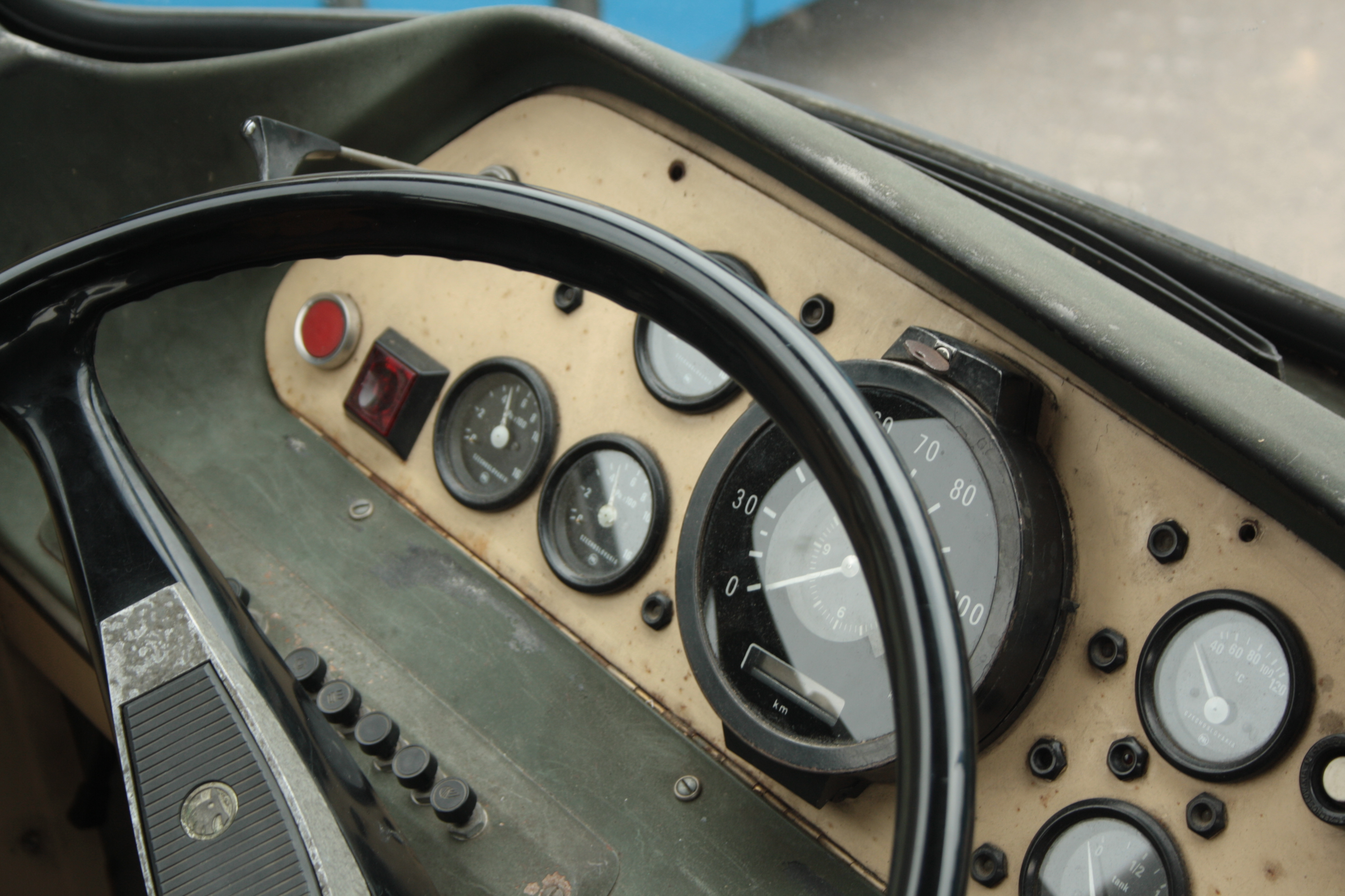 Drivers cabin of czechoslovak ŠL 11 bus shown during exhibition of old cars and buses in Lešany military museum - Opening show of the 15th season. Lešany, Central Bohemian Region, CZ This photograph was taken with a DSLR from WMCZ's Camera grant. This picture was taken and/or got within the scope of the 'Acquiring scientific and specialized pictures' grant.